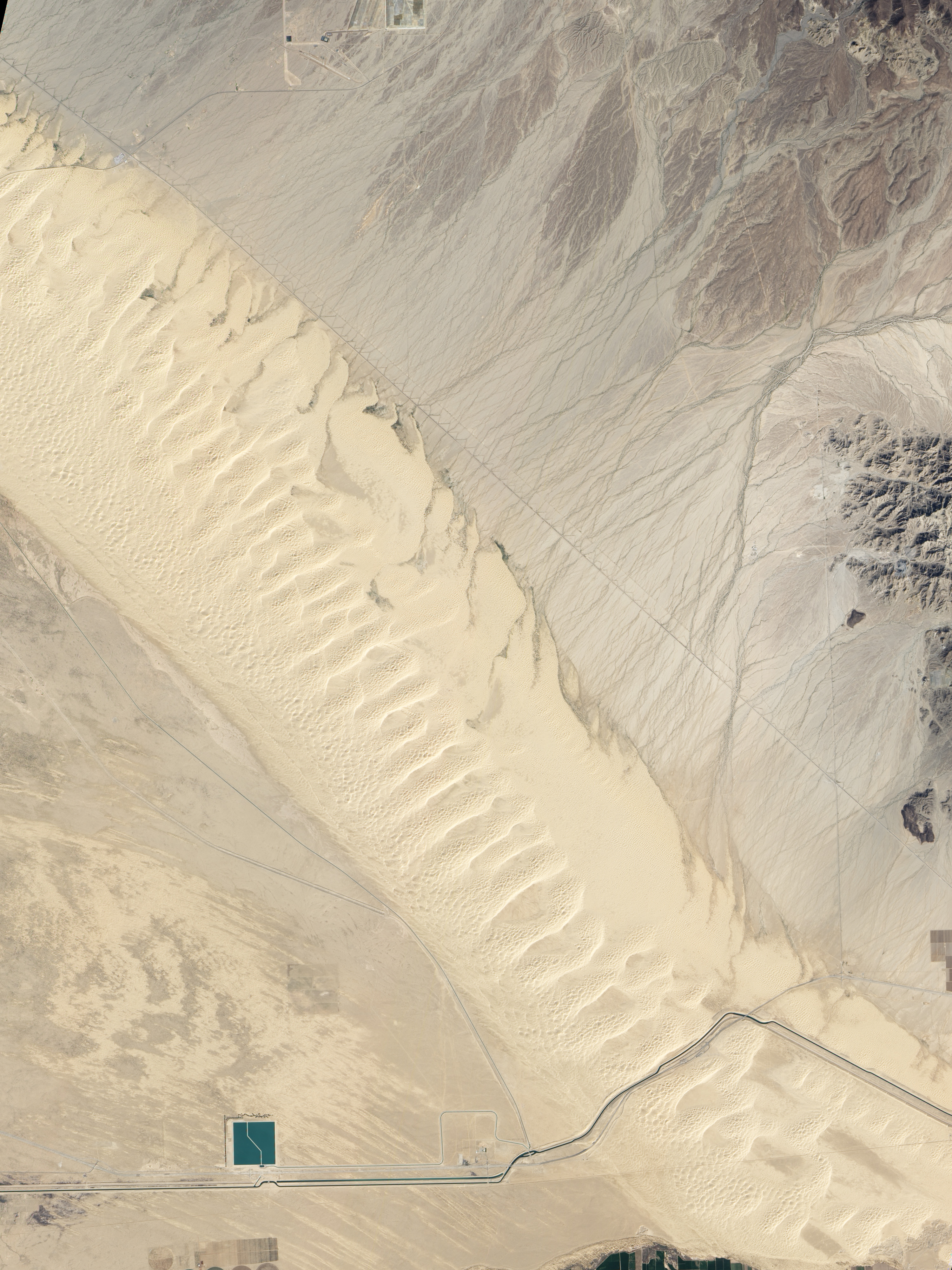 True-colour satellite image of the Algodones Dunes.